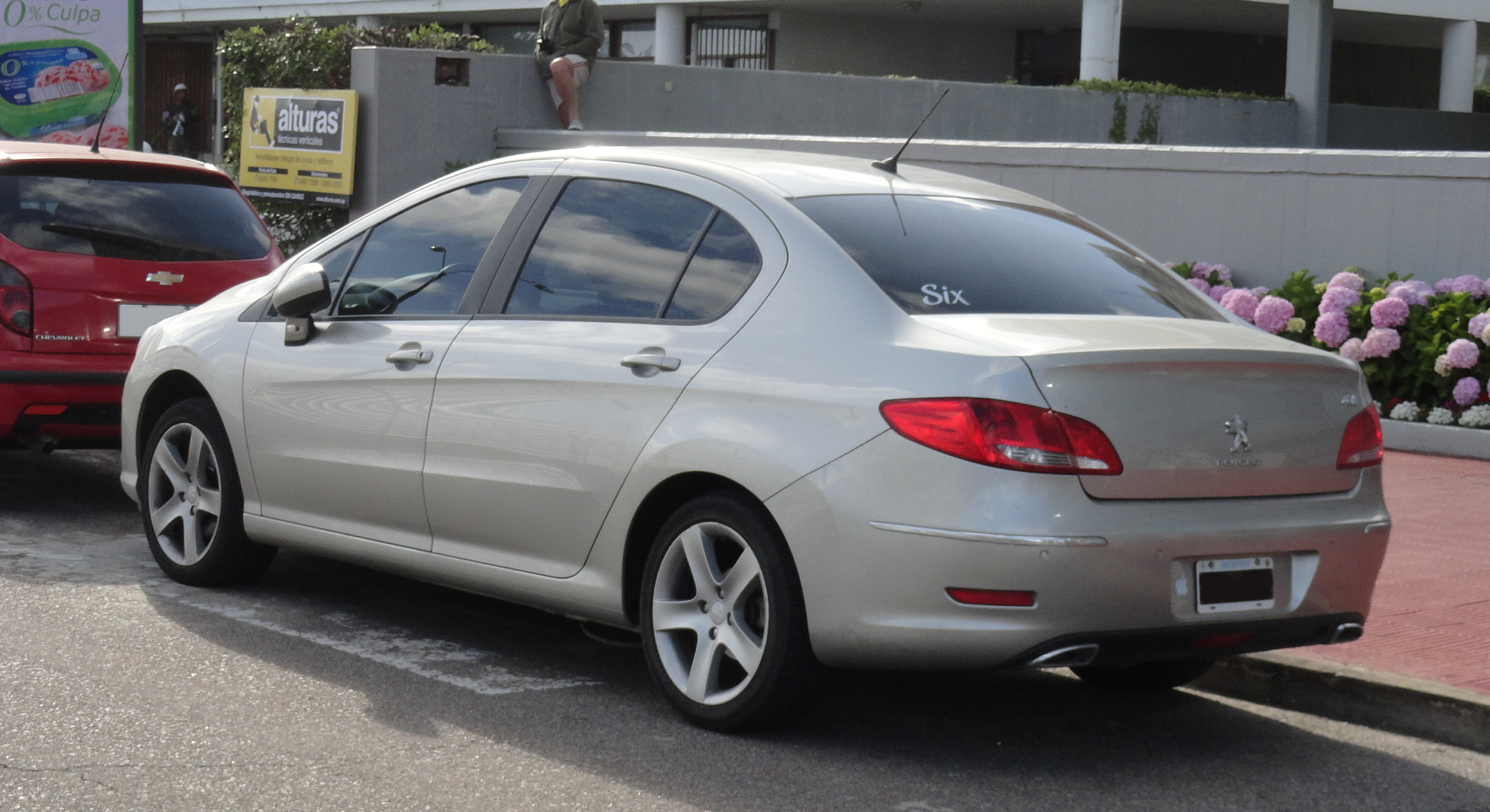 Peugeot 408 2011 photographed in Uruguay